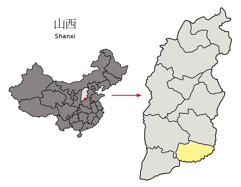 Location of Jincheng Prefecture (yellow) within Shanxi Province of China Map drawn in december 2007 using various sources, mainly : Shanxi Province administrative regions GIS data: 1:1M, County level, 1990 Shanxi Counties map from